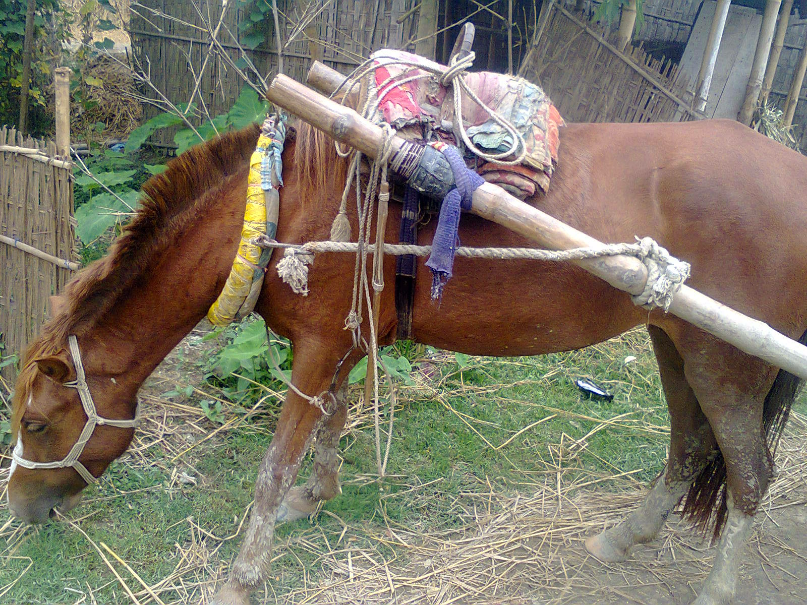 Horse eating grass.